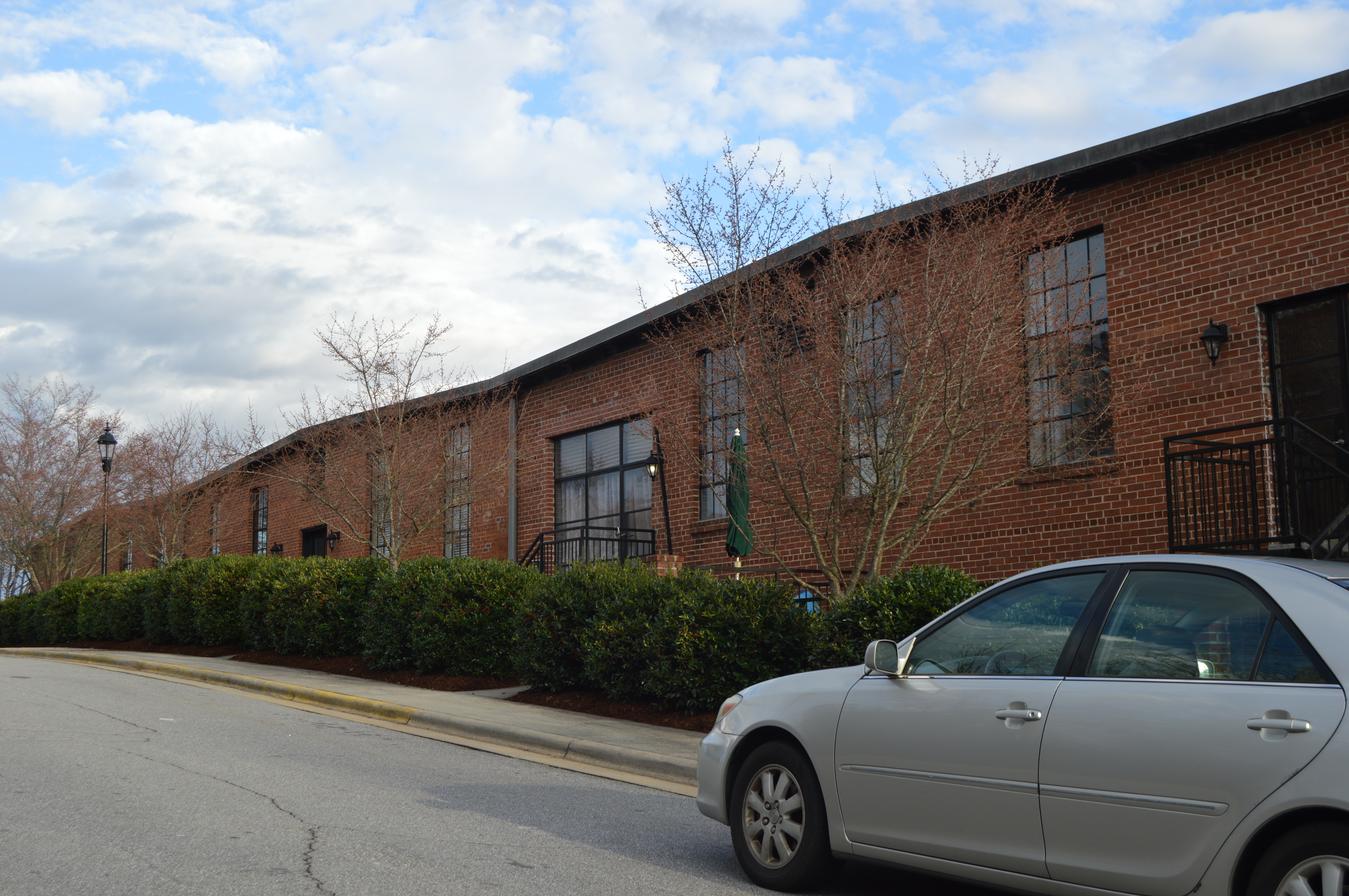 Northern side of the former Wilkes Hosiery Mills, located at 407 "F" Street in North Wilkesboro, North Carolina, United States. Built in 1923, later converted into a furniture factory, and now an apartment building, it is listed on the National Register of Historic Places.